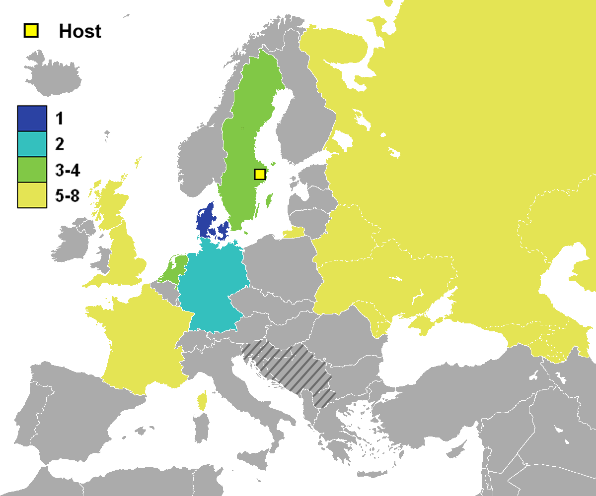 UEFA Euro 1992 final team ranking, showing: Winner (dark blue) Runner-up (light blue) Semifinalists (light green) Quarterfinalists (yellow) Yellow square is host nation (Sweden). Red dots: venues